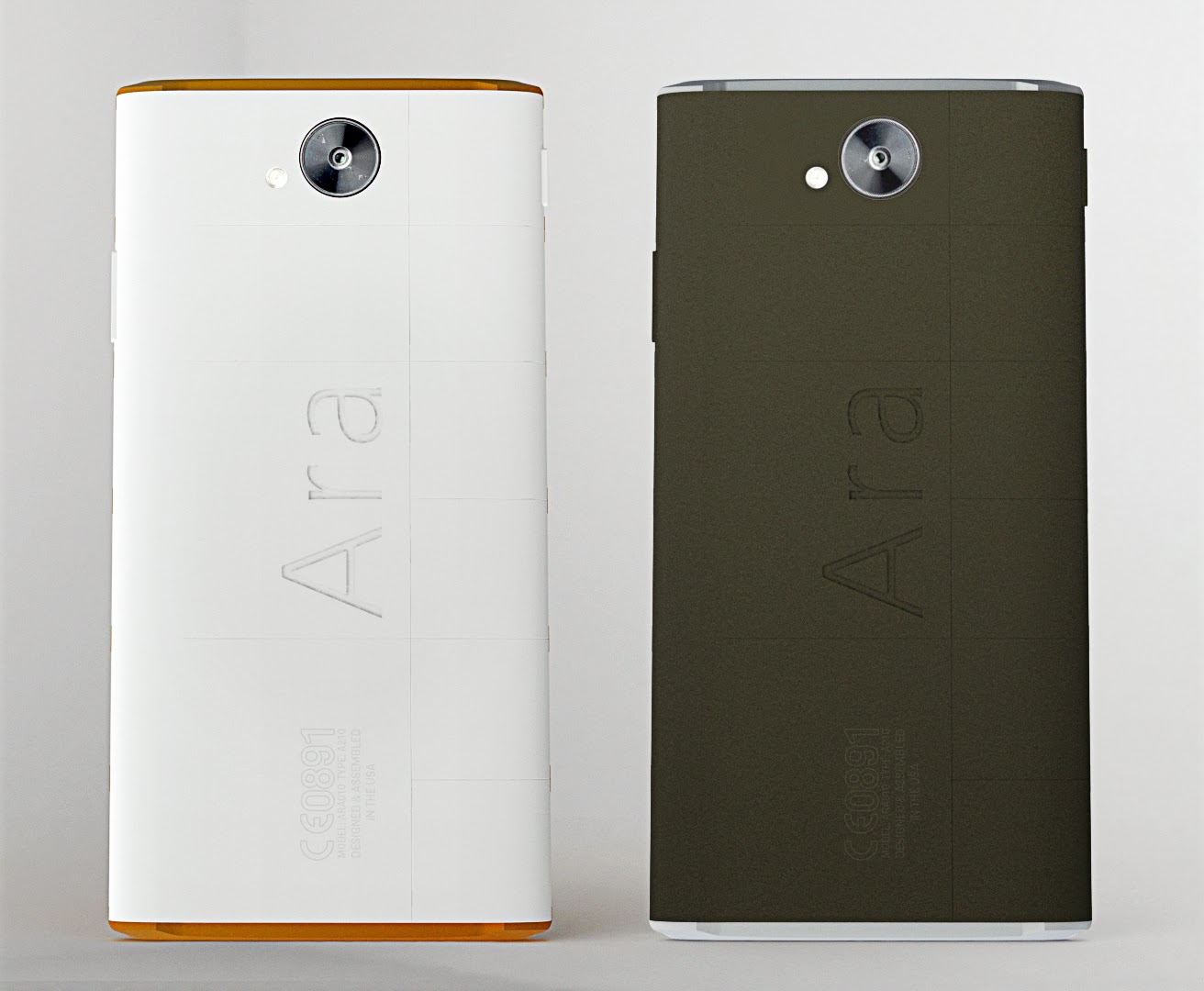 A concept for project Ara. Created during the open development process on dScout. Created January 2014